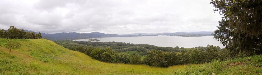 view of Apanas Lake